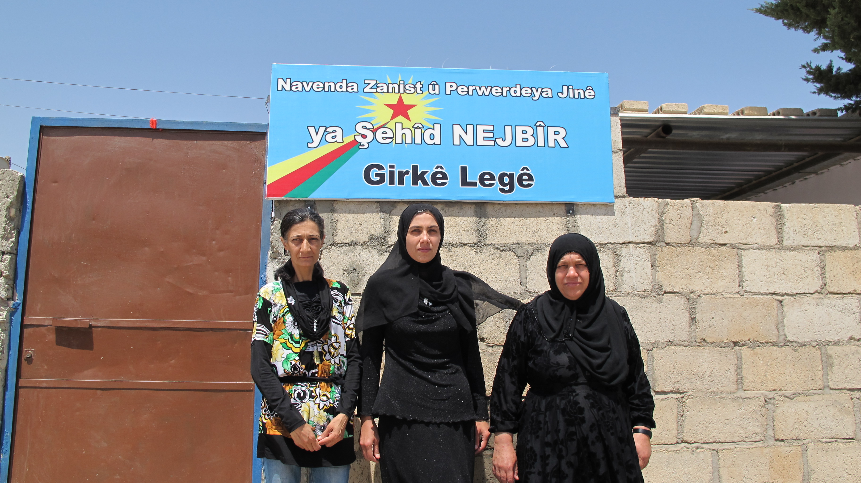 Kurdish volunteers pose at the entrance of Girke Lege´s women centre